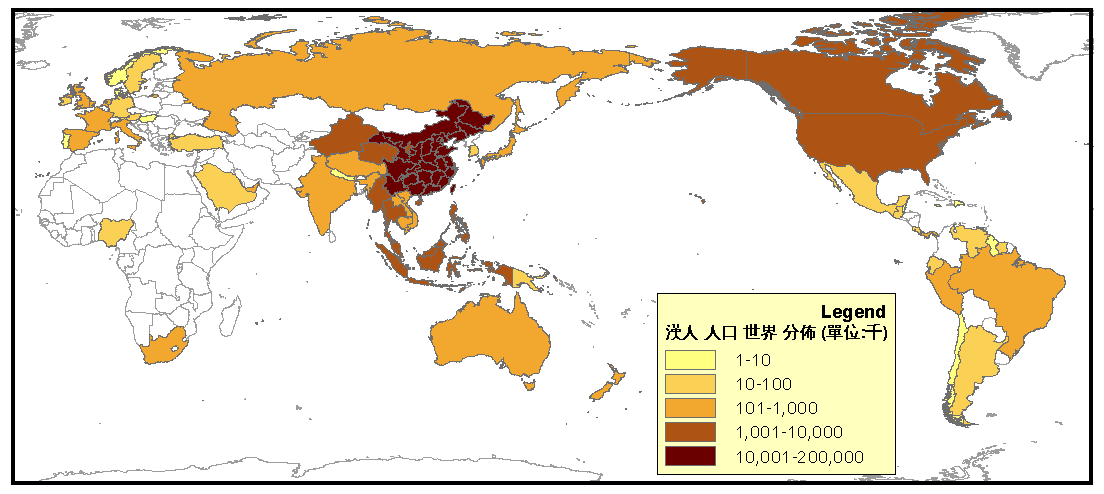 Han Population in the World: 2010